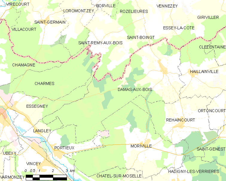 Map of French municipality Damas-aux-Bois